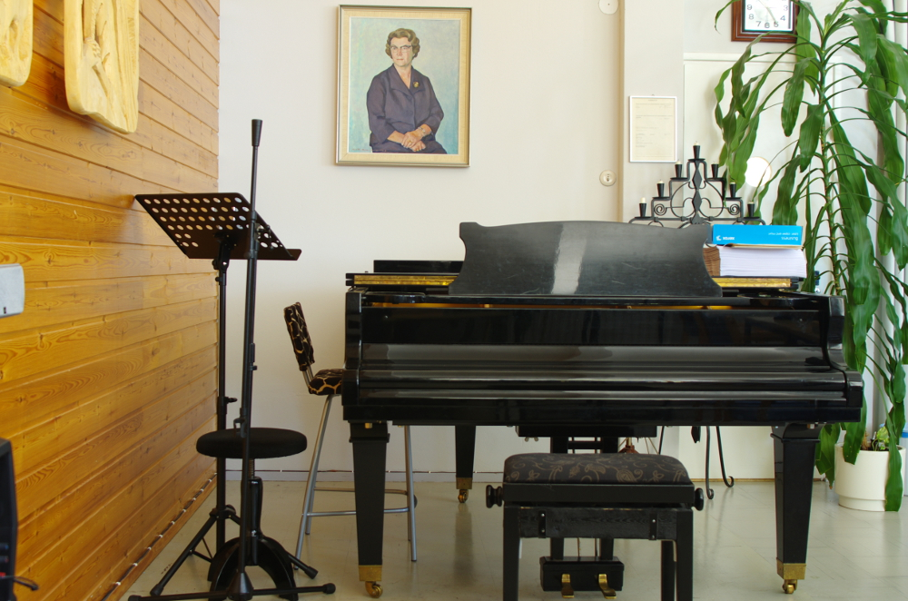 kansanopisto_1